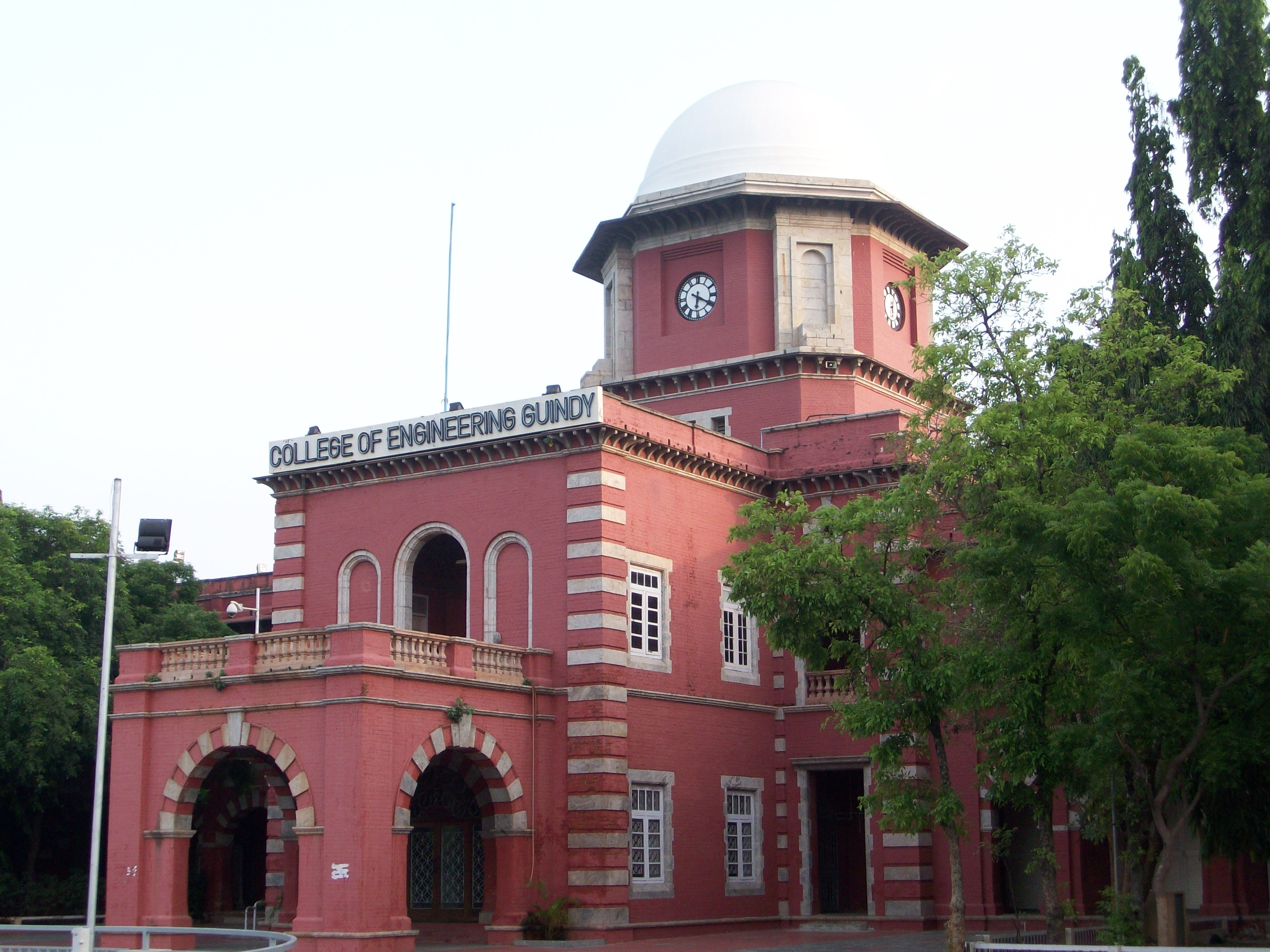 An early morning image of the "Red Building" of College of Engineering Guindy Campus, Anna University Chennai